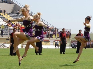 Students of the Celal Bayar University during the annual Commemoration of Atatürk, Youth and Sports Day (May 19) celebrations in Manisa, Turkey.